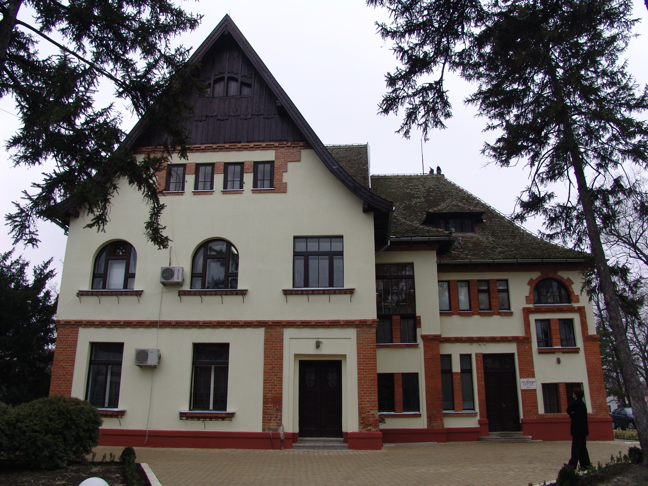 Elek Villa in Zrenjanin